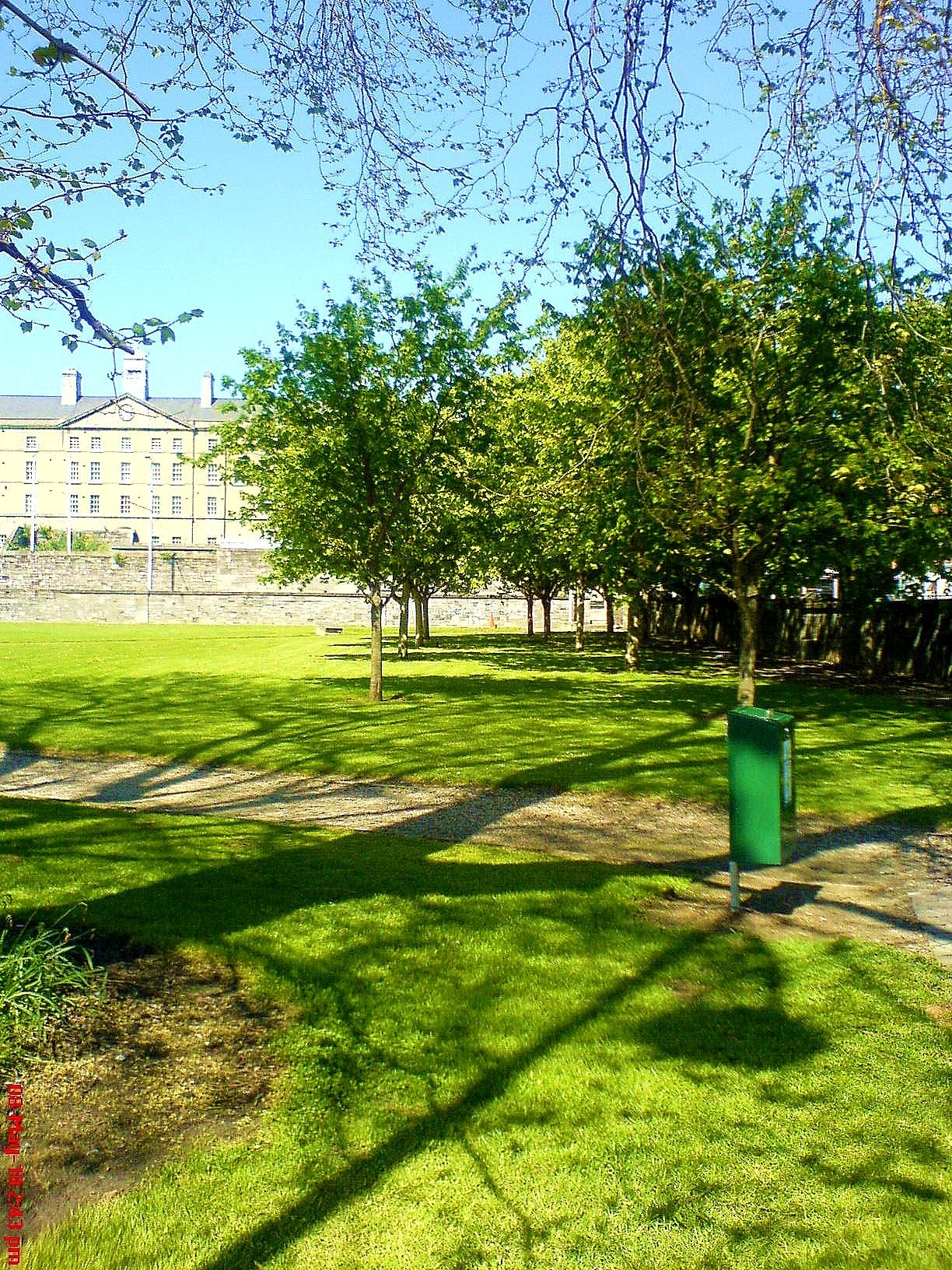 The croppy acre, a small park in front of the National Museum of Ireland in Dublin.